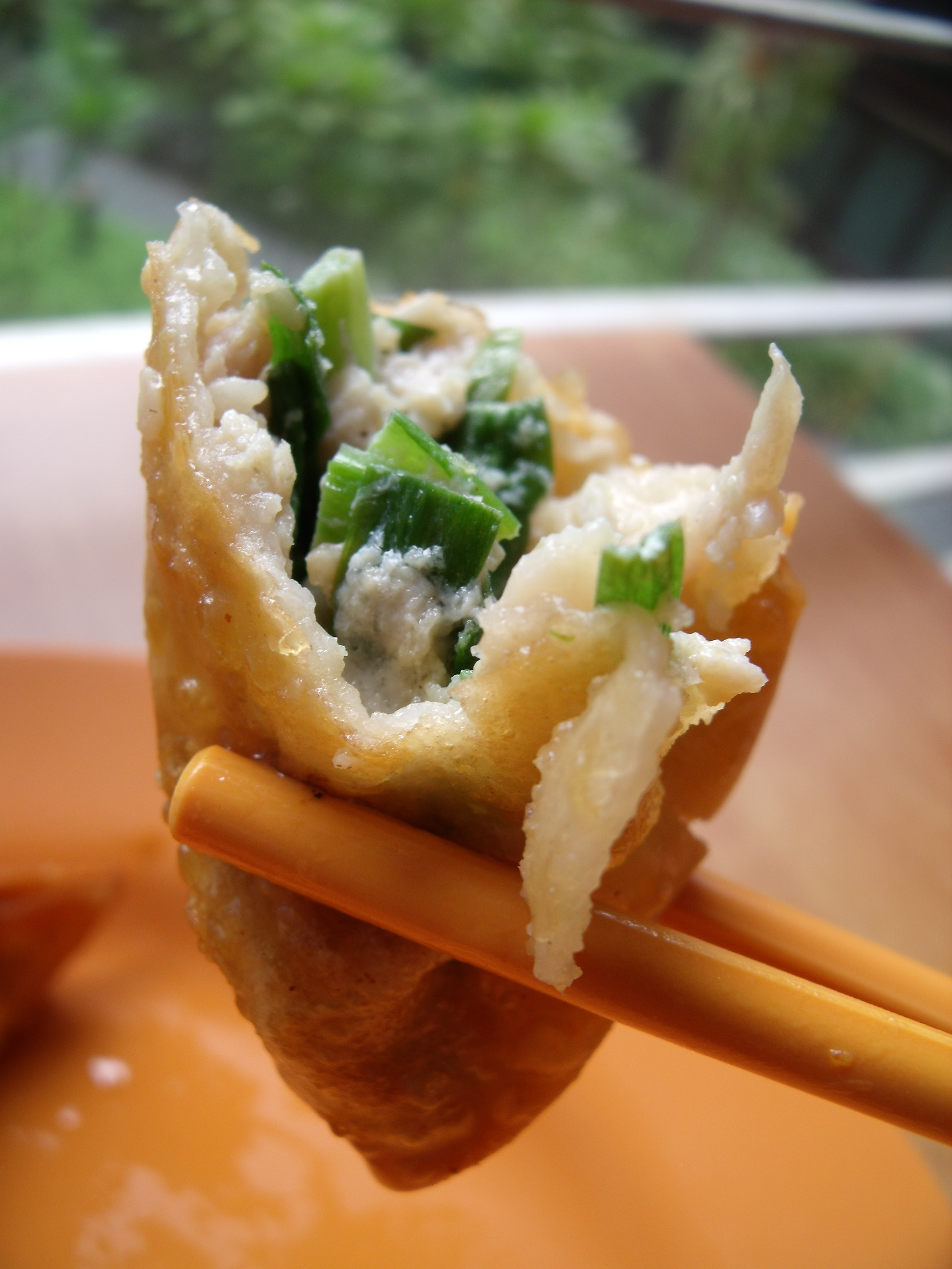 Fillings of a dumpling served in NUH food court.